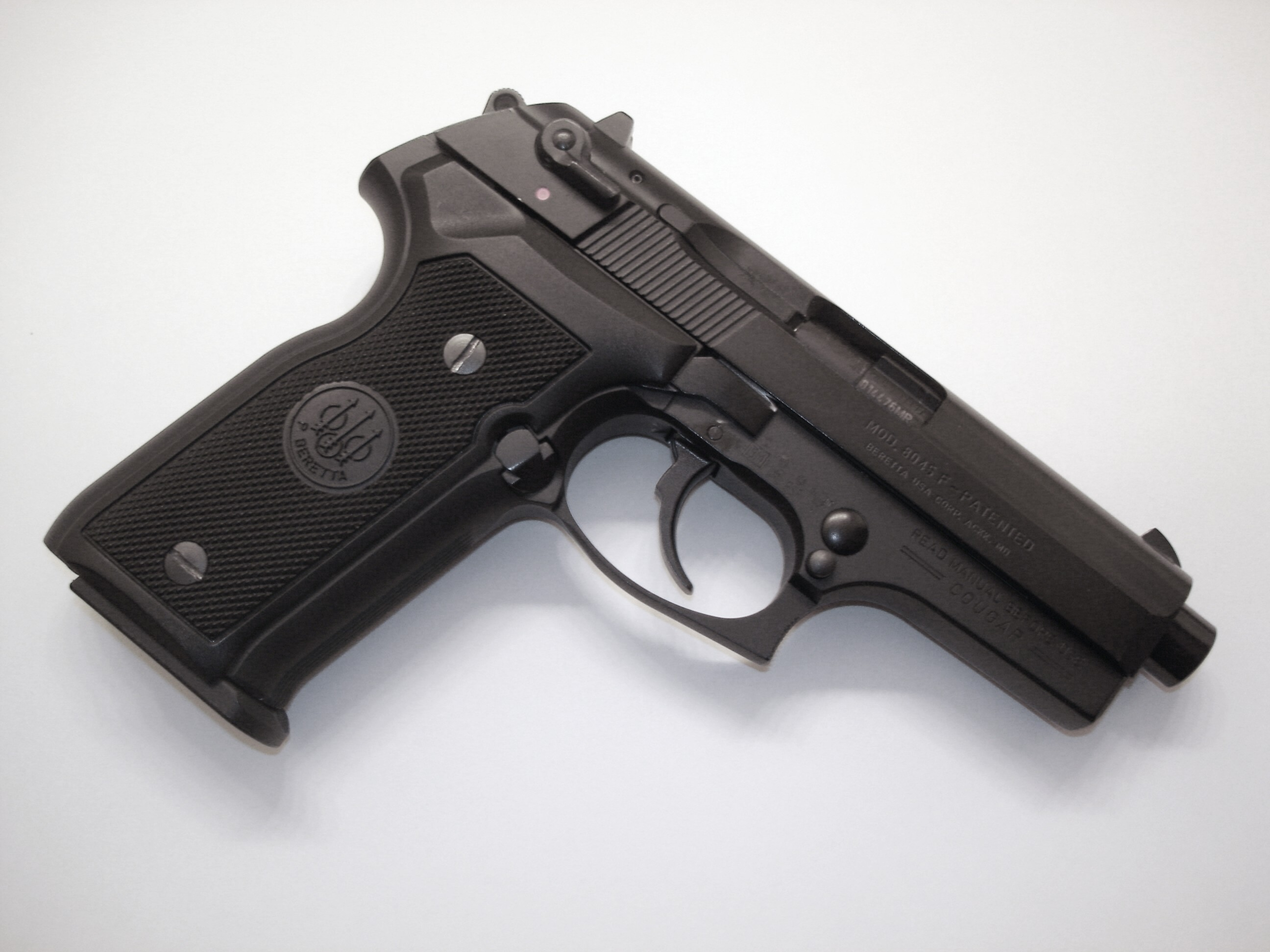 Beretta 8045 LAPD pistol